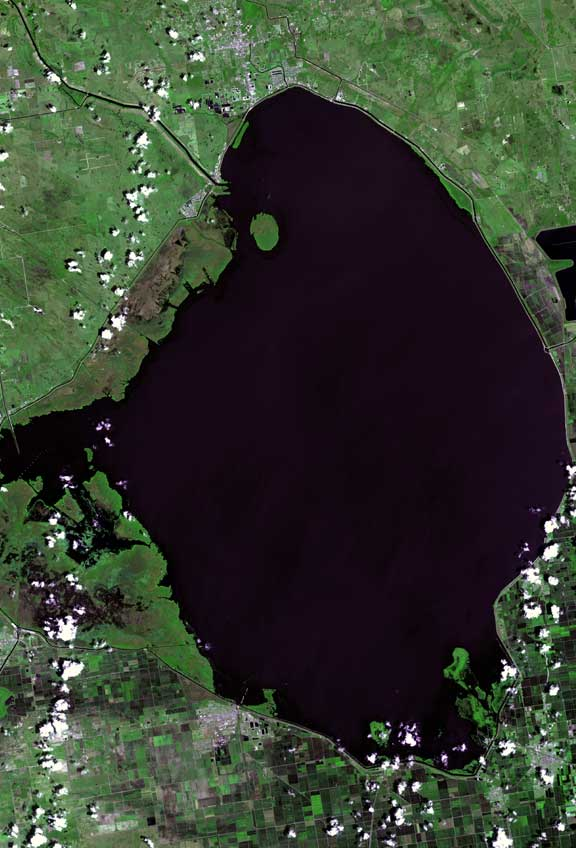 Lake Okeechobee in Florida. The raw satellite imagery shown in these images was obtained from NASA and/or the US Geological Survey. Post-processing and production by